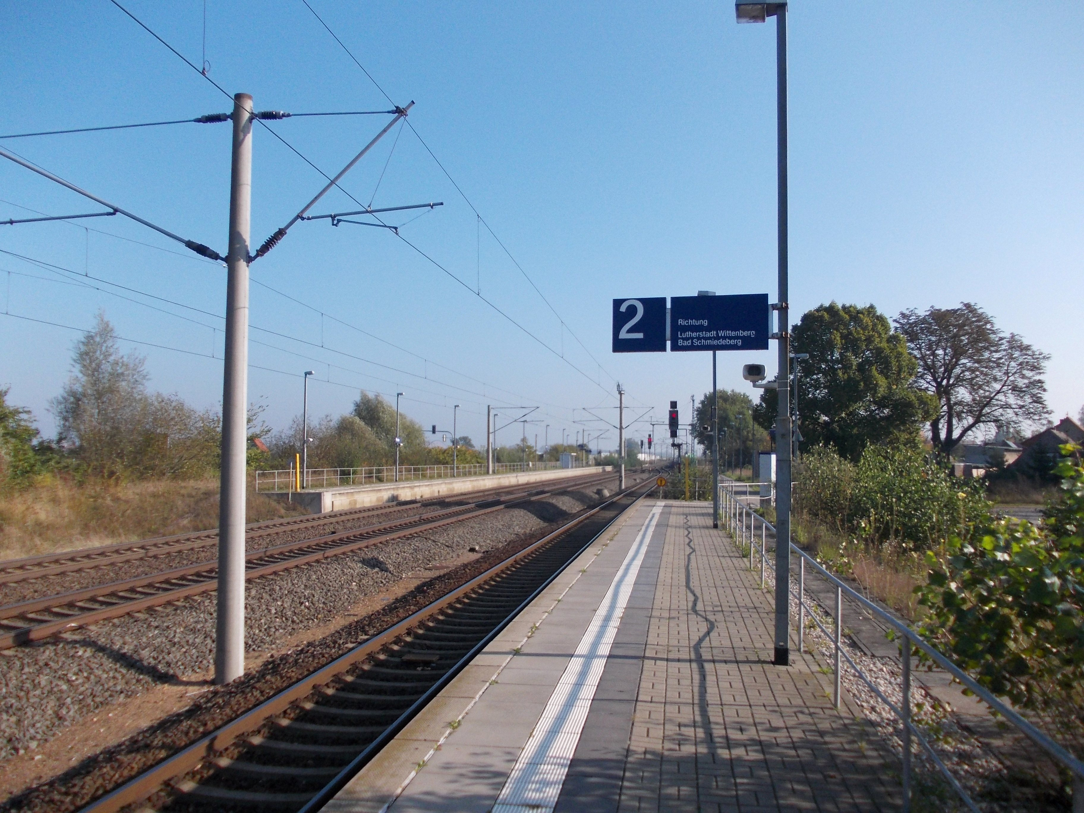 Pratau train station (Wittenberg, Saxony-Anhalt)